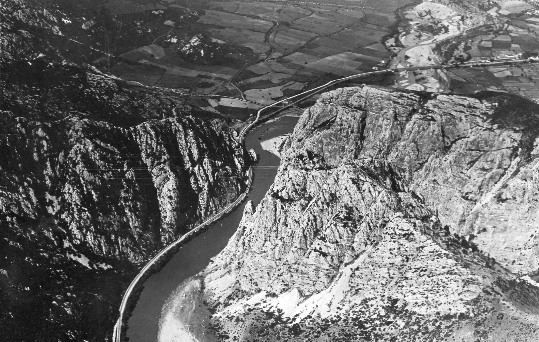 Demir Kapija, photo from 1929 This media file is produced by Wikipedian in Residence in Category:Wikipedian in Residence at DARM in 2016.